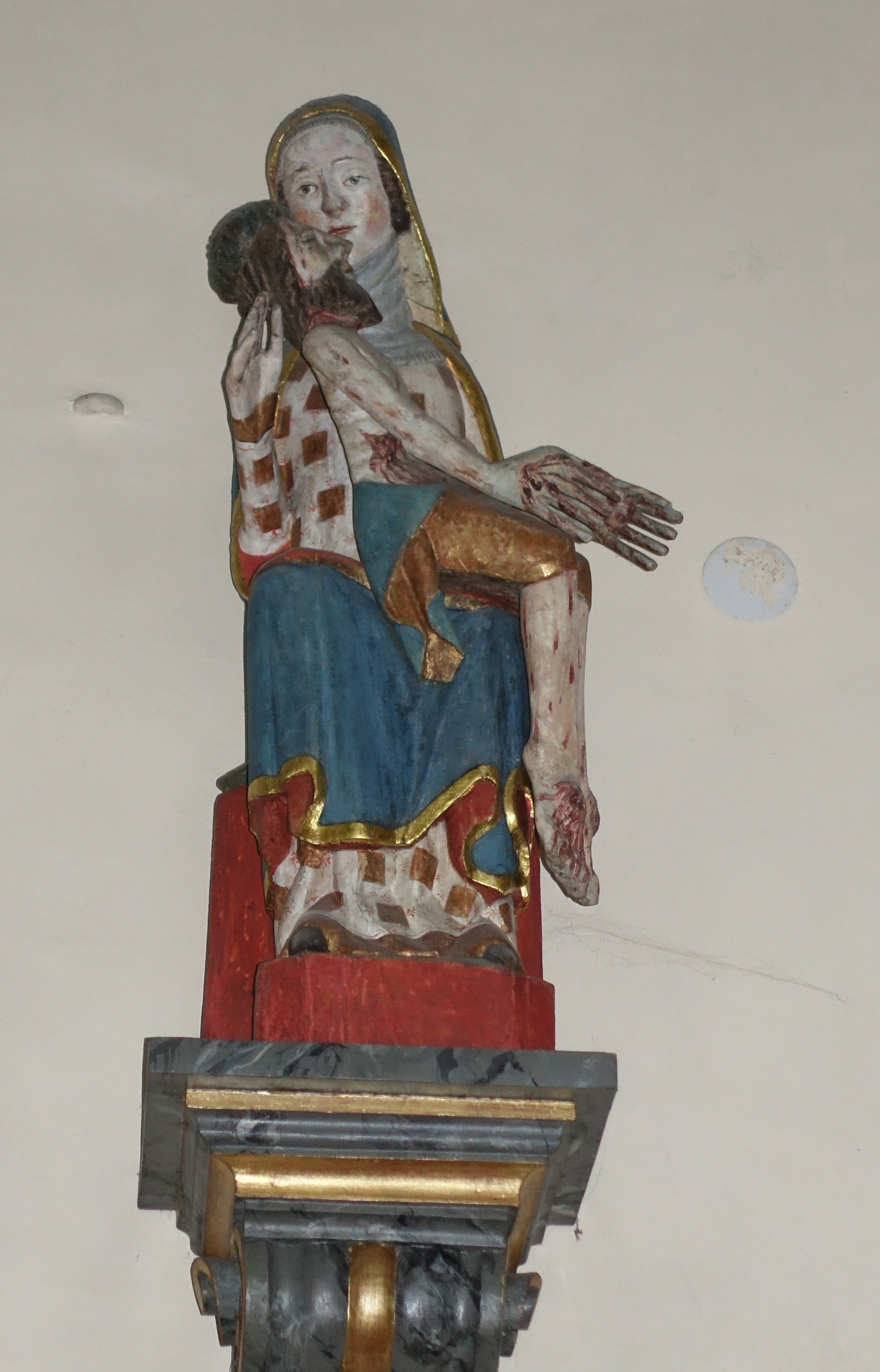 Kreuzerhöhung church in Steinach (Ortenaukreis), medieval Pieta